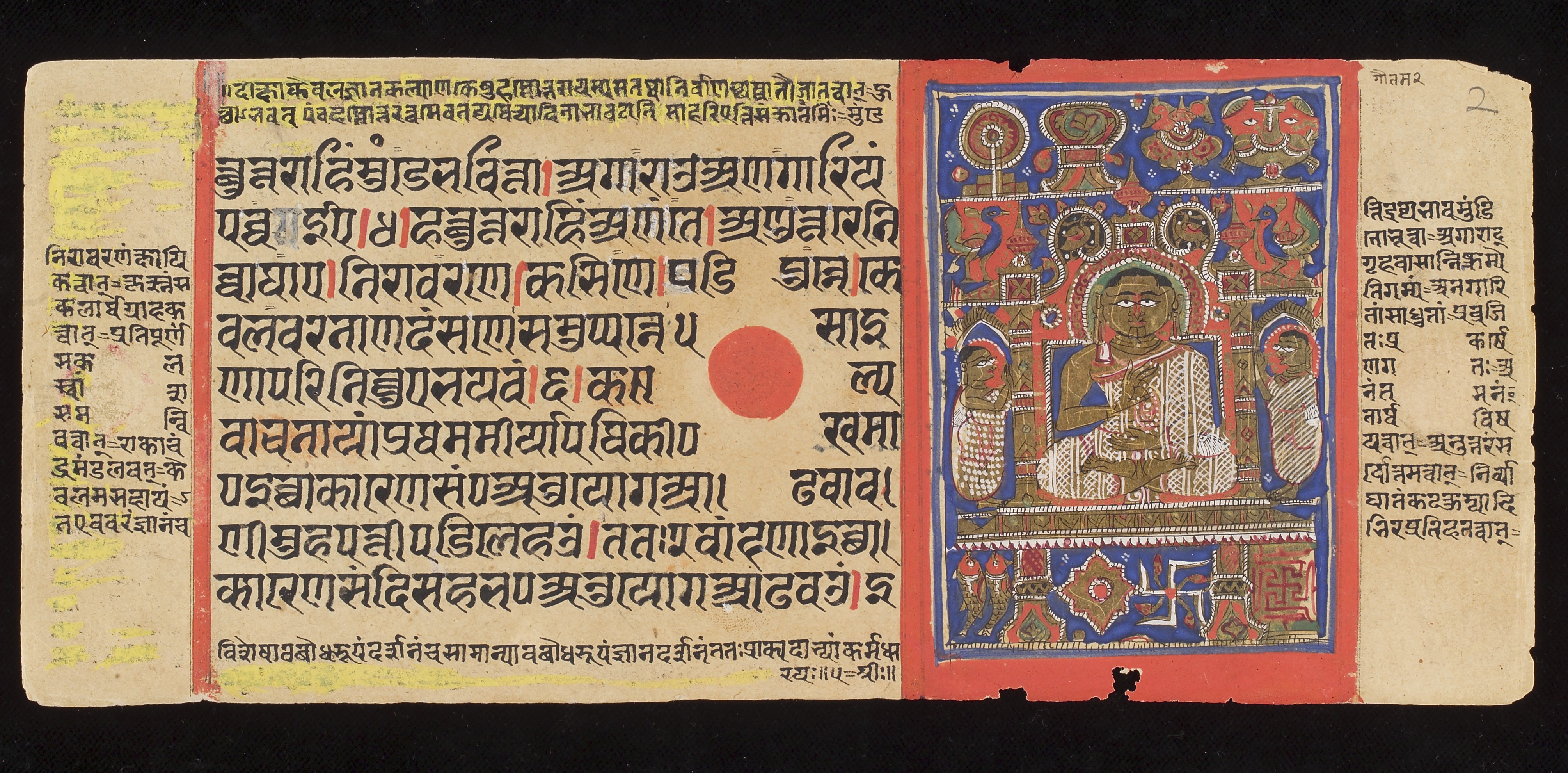 The Kalpasutra (the heroic deeds of the conquerors) a Prakrit Manuscript dated 1503. Minature Wellcome Images Keywords: Jainism; Religion; India; miniatures; ORIENTAL; Jinas